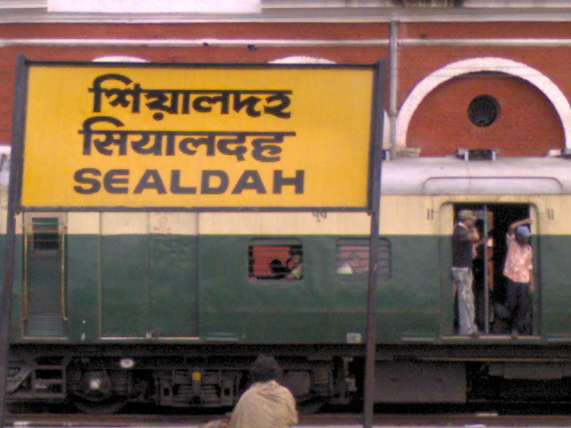 Board,_Sealdah_station,kolkata india